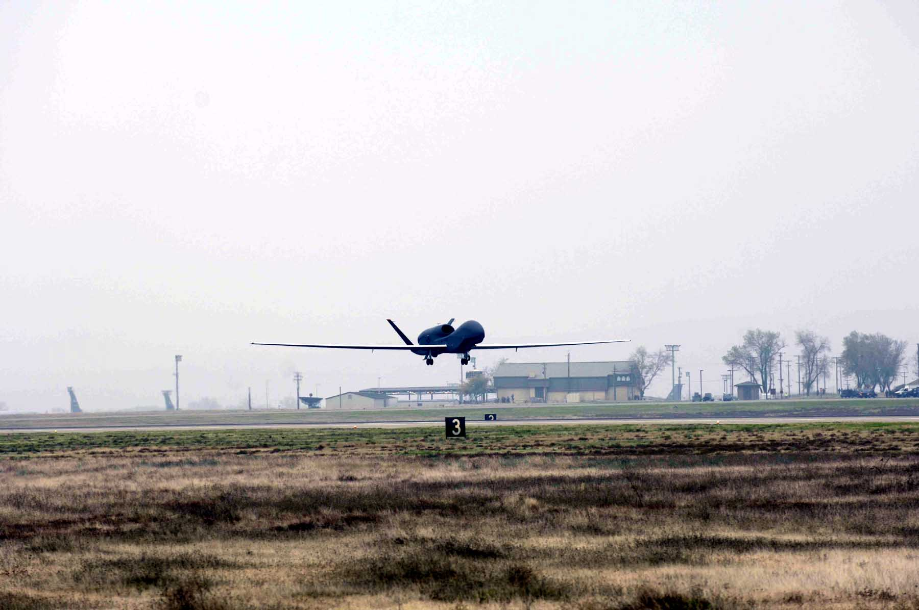 Global Hawk flies first Beale ACC sortie Beale's newly-arrived RQ-4 Global Hawk Remotely Piloted Aircraft took off from Beale Tuesday for its first operational Air Combat Command flight